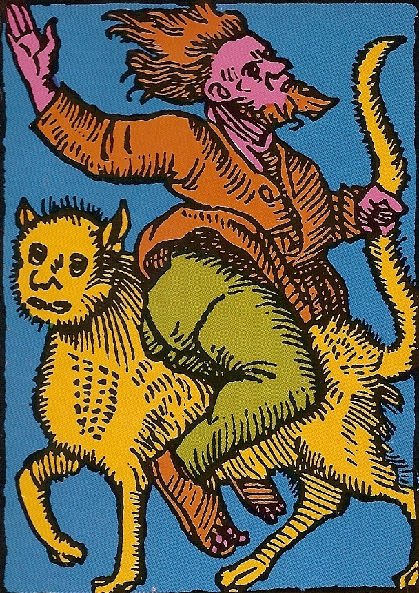 Person riding the devil, for example used at Montague Summers Malleus Maleficarum (1971), nachkoloriert